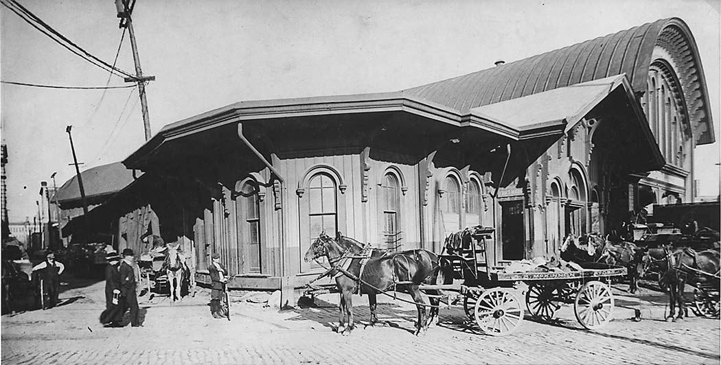 Old Grand Trunk Station, foot of Yonge Street. (Toronto, Canada)